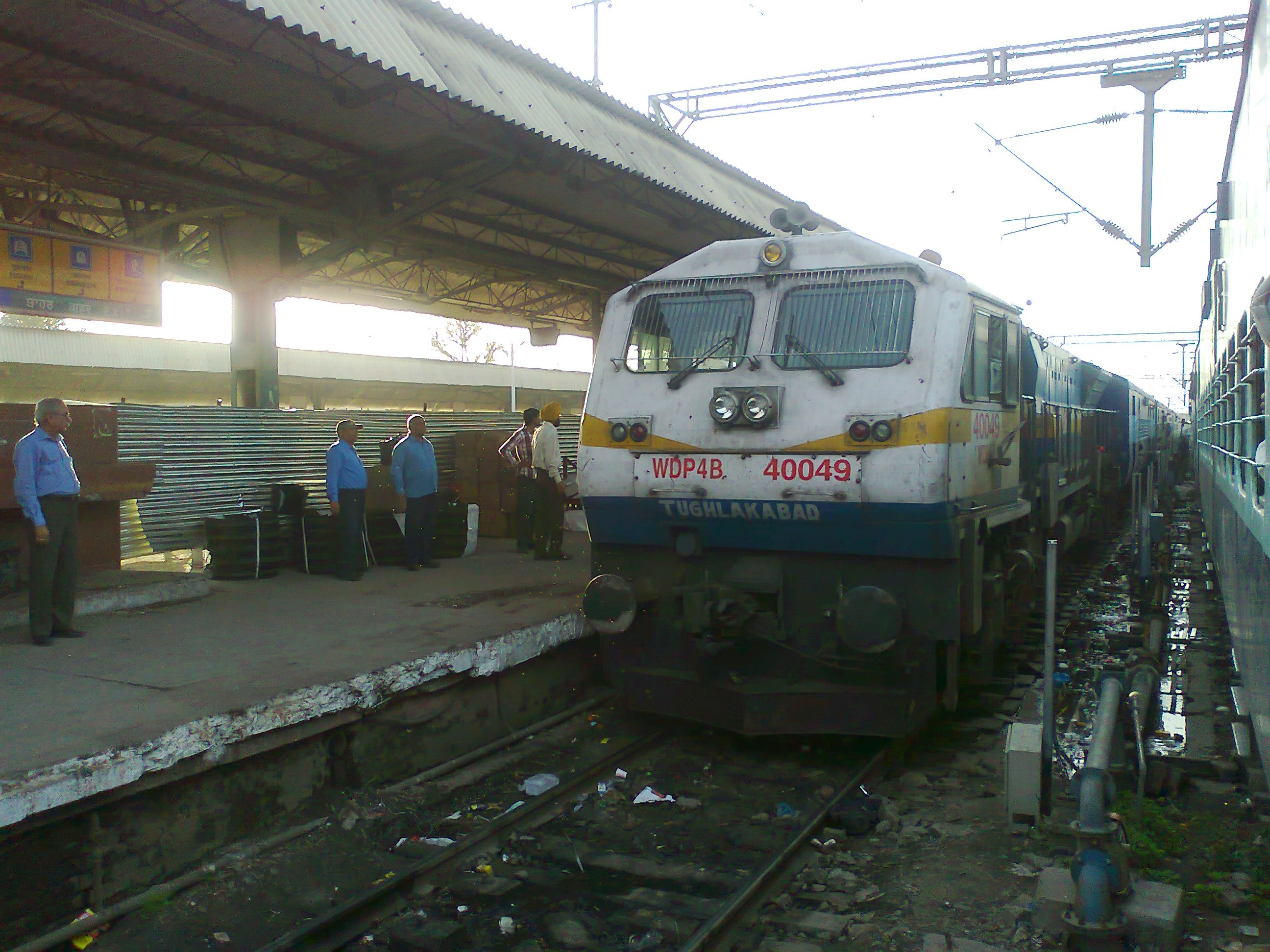 WDP4B loco hauling Chhattisgarh Express at at Jalandhar City